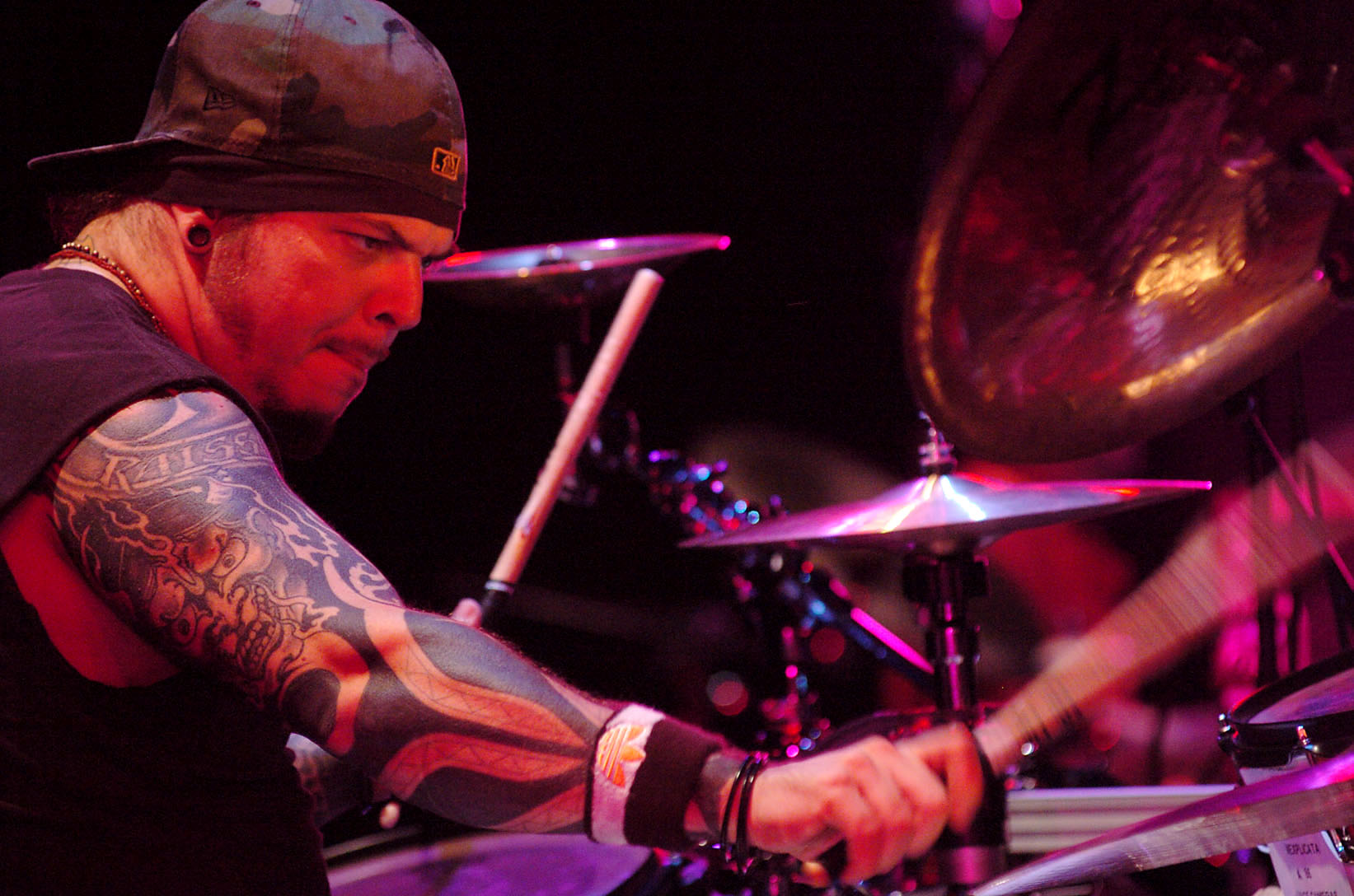 Iggor Cavalera performing live with Lenine in São Paulo, 2006no Auditório Ibirapuera, em São Paulo.